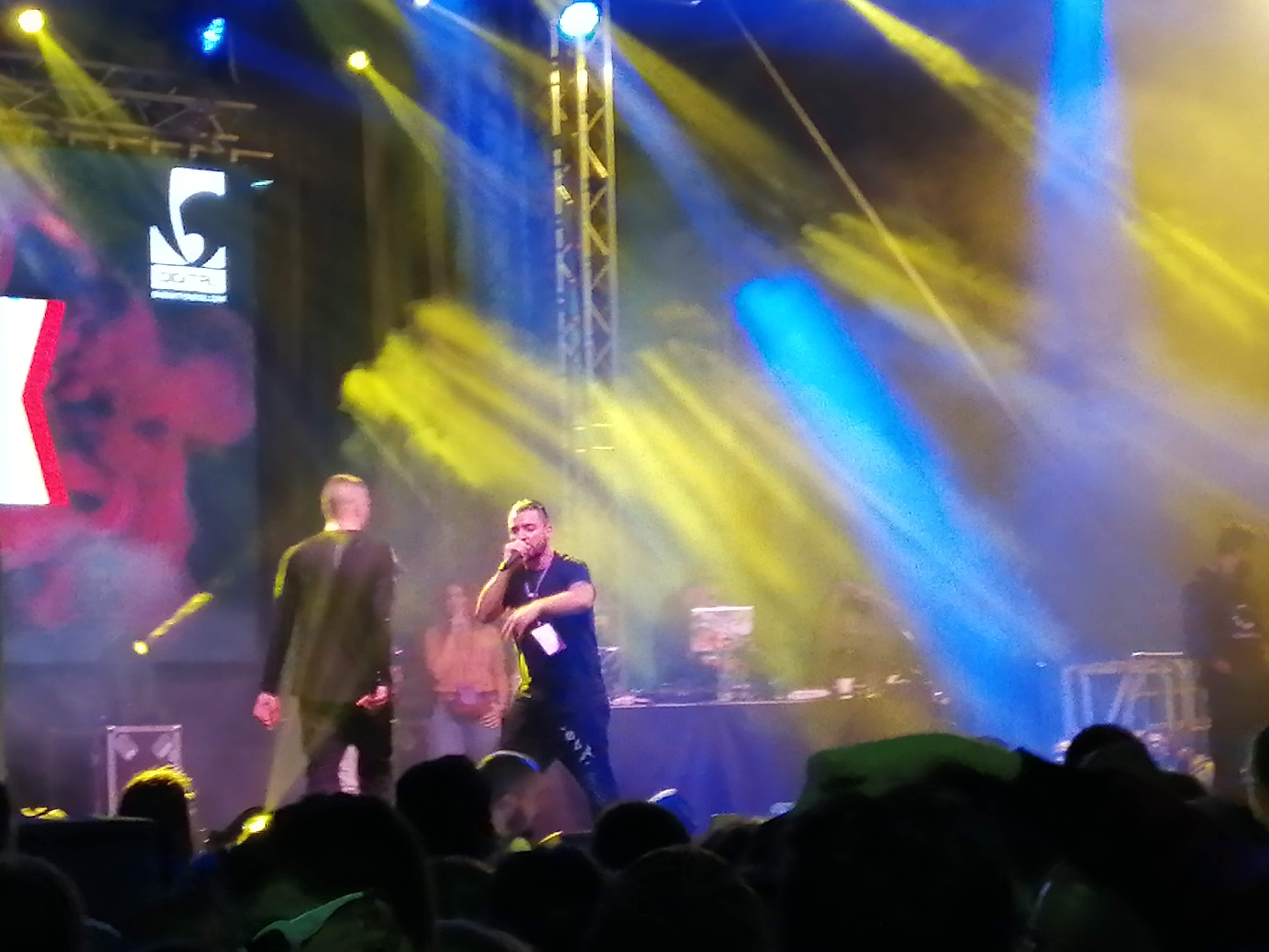 Serbian trap musicians Fox and Surreal at the Sneakerville festival in Belgrade.